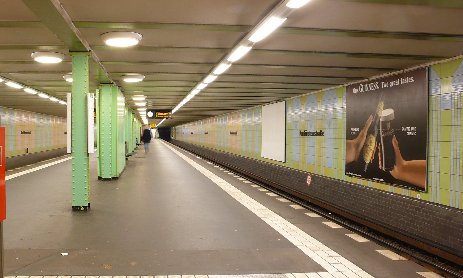 Kurfuerstenstrasse subway